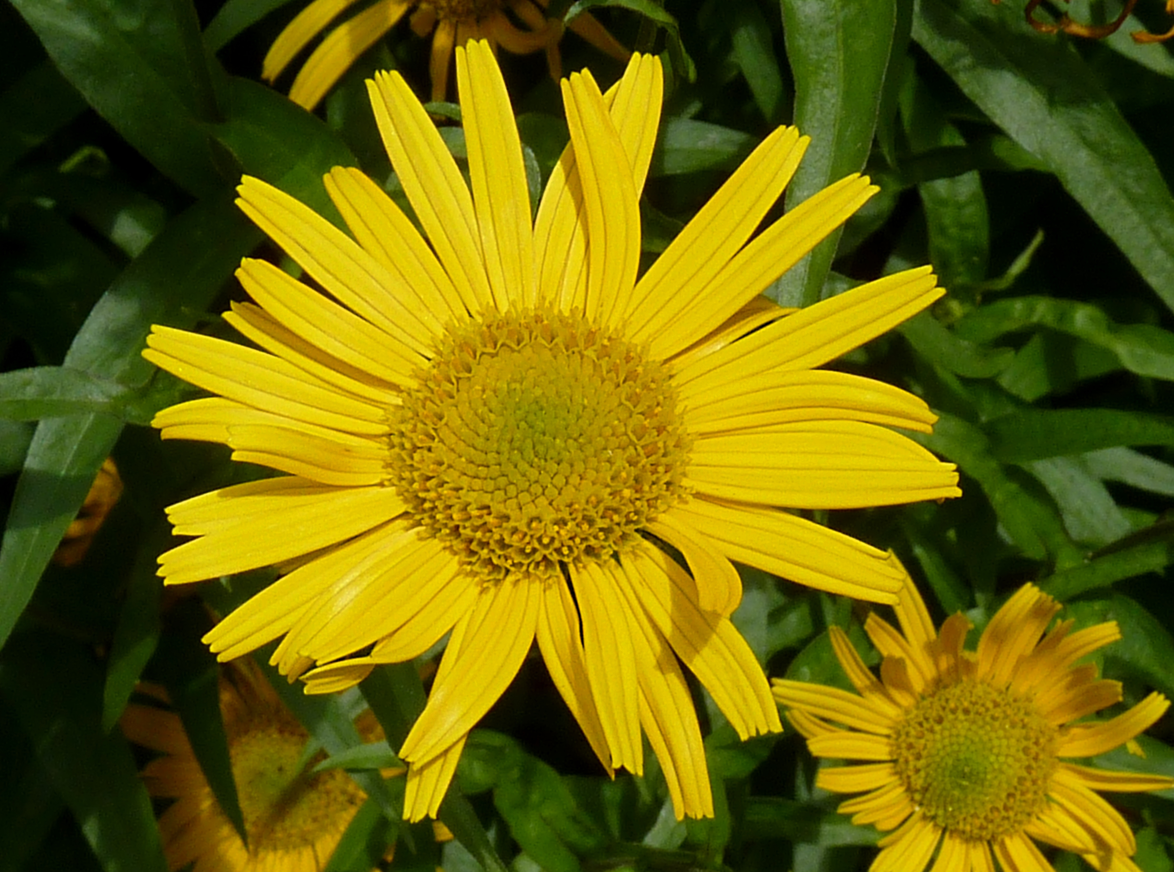 Buphthalmum salicifolium, in a garden in Belgium.